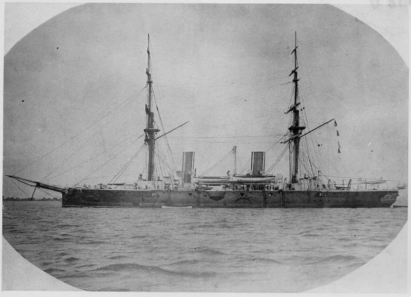 Royal Navy Armoured Cruiser Imperieuse as built with two masts